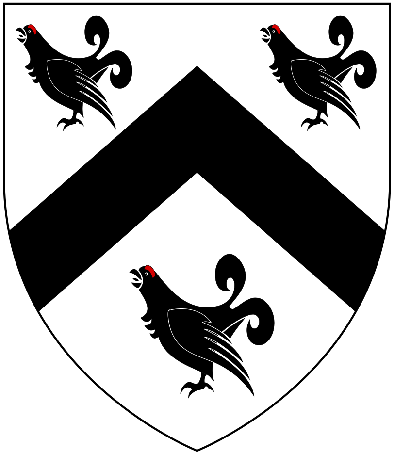 Arms of Moore of Moore, and of Upcott in the parish of Cheriton Fitzpaine, both in Devon: Argent, a chevron between three moorcocks sable (Source: Pole, Sir William (d.1635), Collections Towards a Description of the County of Devon, Sir John-William de la Pole (ed.), London, 1791 , p.493). Note: depicted is a coot, a close approximation to a moorcock.